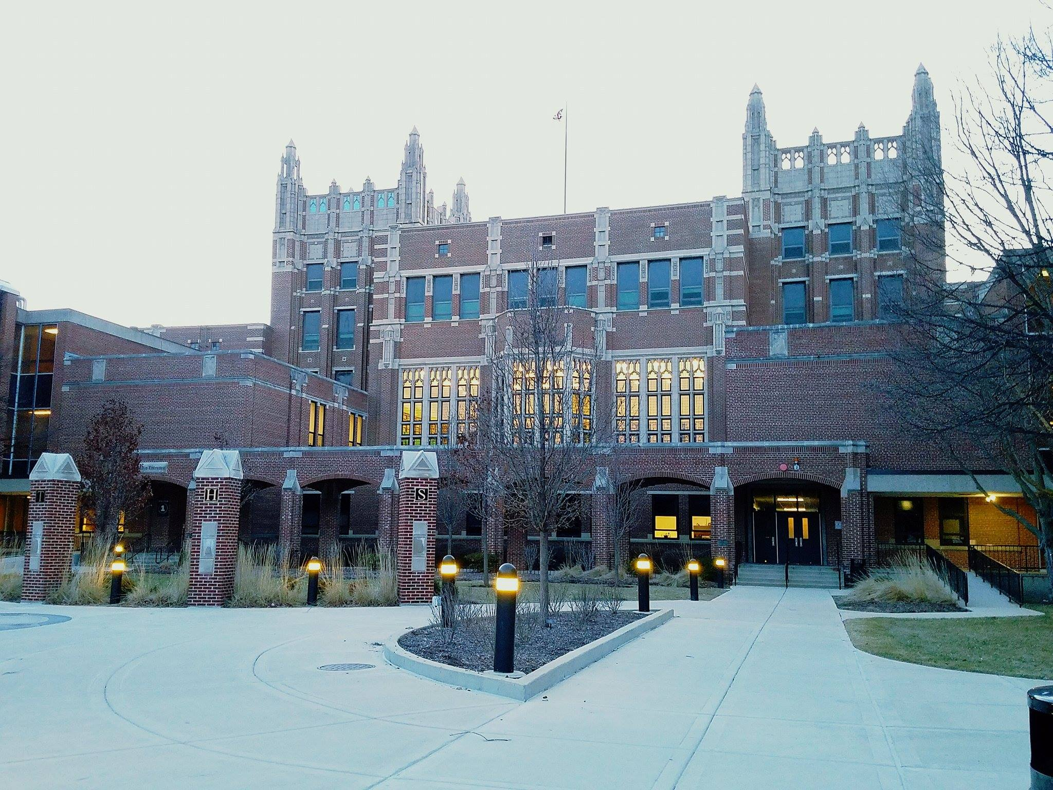 Evanston Township High School in Evanston, Illinois, from Dodge Street.